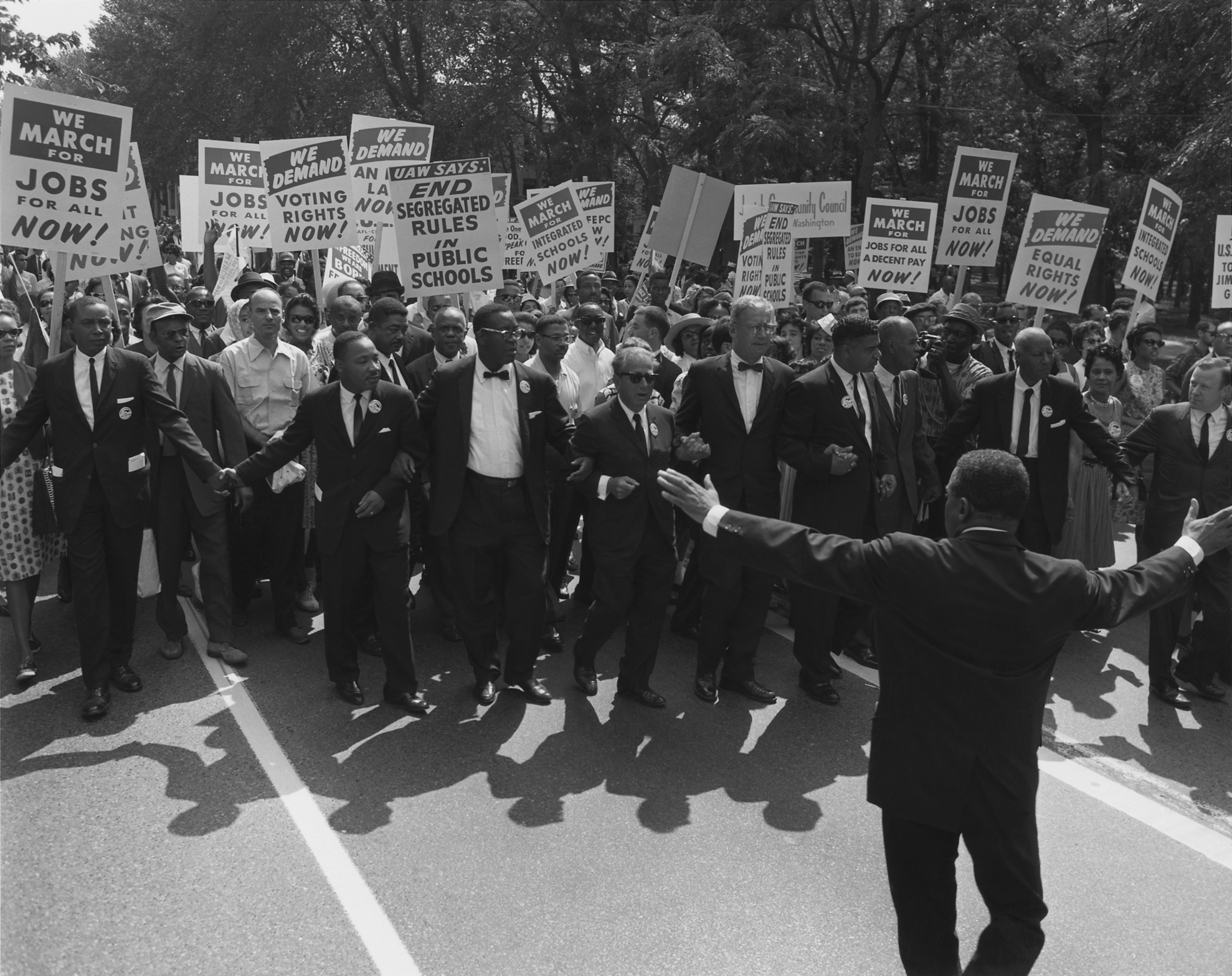 This United States Information Agency photograph of the March on Washington, August 28, 1963. Shows civil rights and union leaders, including Martin Luther King Jr., Joseph L. Rauh Jr., Whitney Young, Roy Wilkins, A. Philip Randolph, Walter Reuther, and Sam Weinblatt. (80-G-413998) National archive number 80-G-16871 In the Winter 2004, Vol. 36, No. 4 of the National Archives magazine, Prologue, named this image one of its top ten requested images[1]